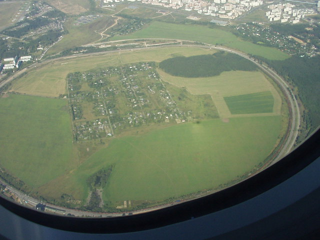 Railroad Transport Institute (ВНИИЖТ) testing range in Shcherbinka, Moscow, aerial view.